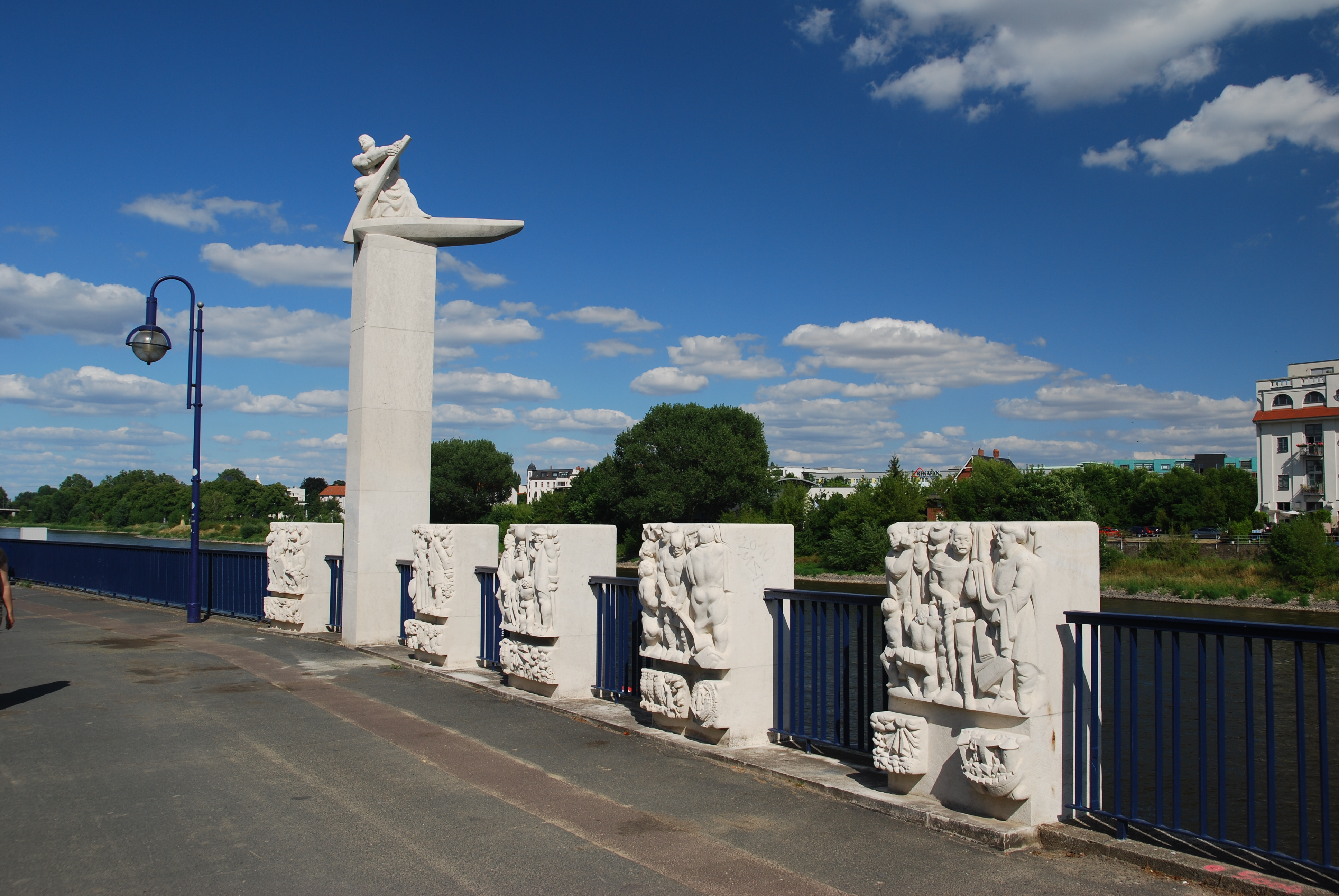 Der Fährmann (i.e. "The Ferryman") and five reliefs with scenes from the history of the city of Magdeburg on the banks of the Elbe promenade in Saxony-Anhalt, Germany